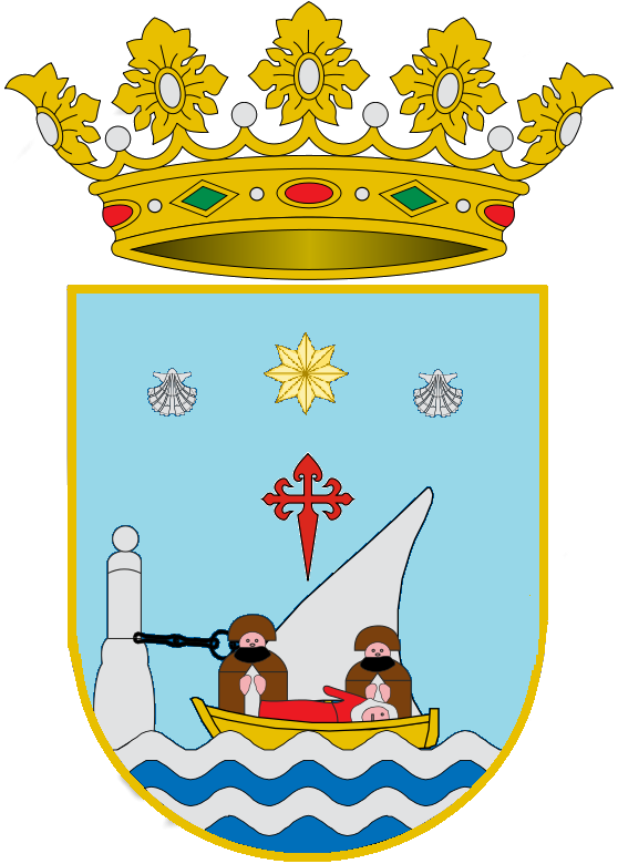 Official coat of arms of Padrón (Galicia, Spain)